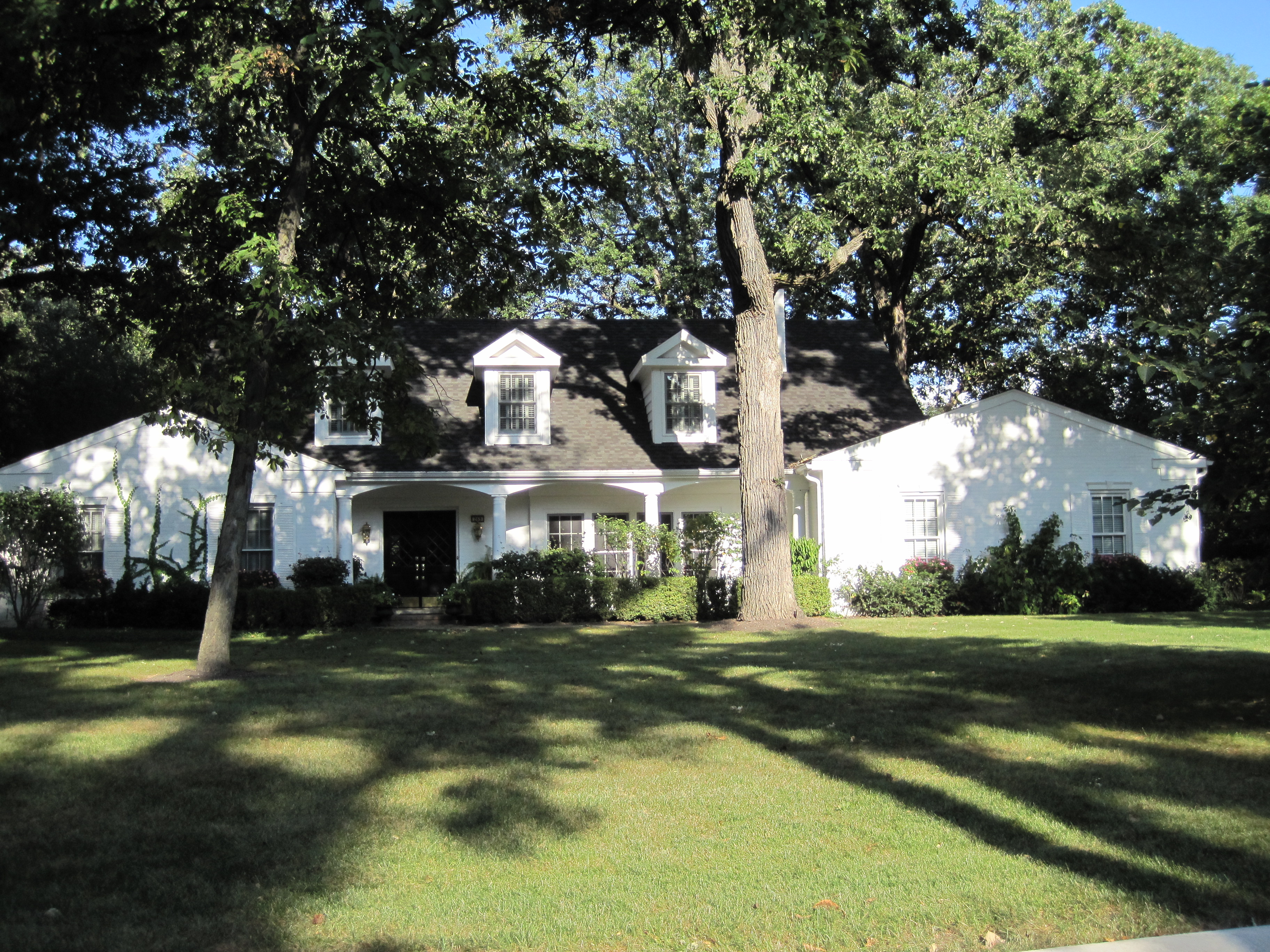 265 King Muir Rd., Lake Forest, IL, part of the Deerpath Hill Estates Historic District